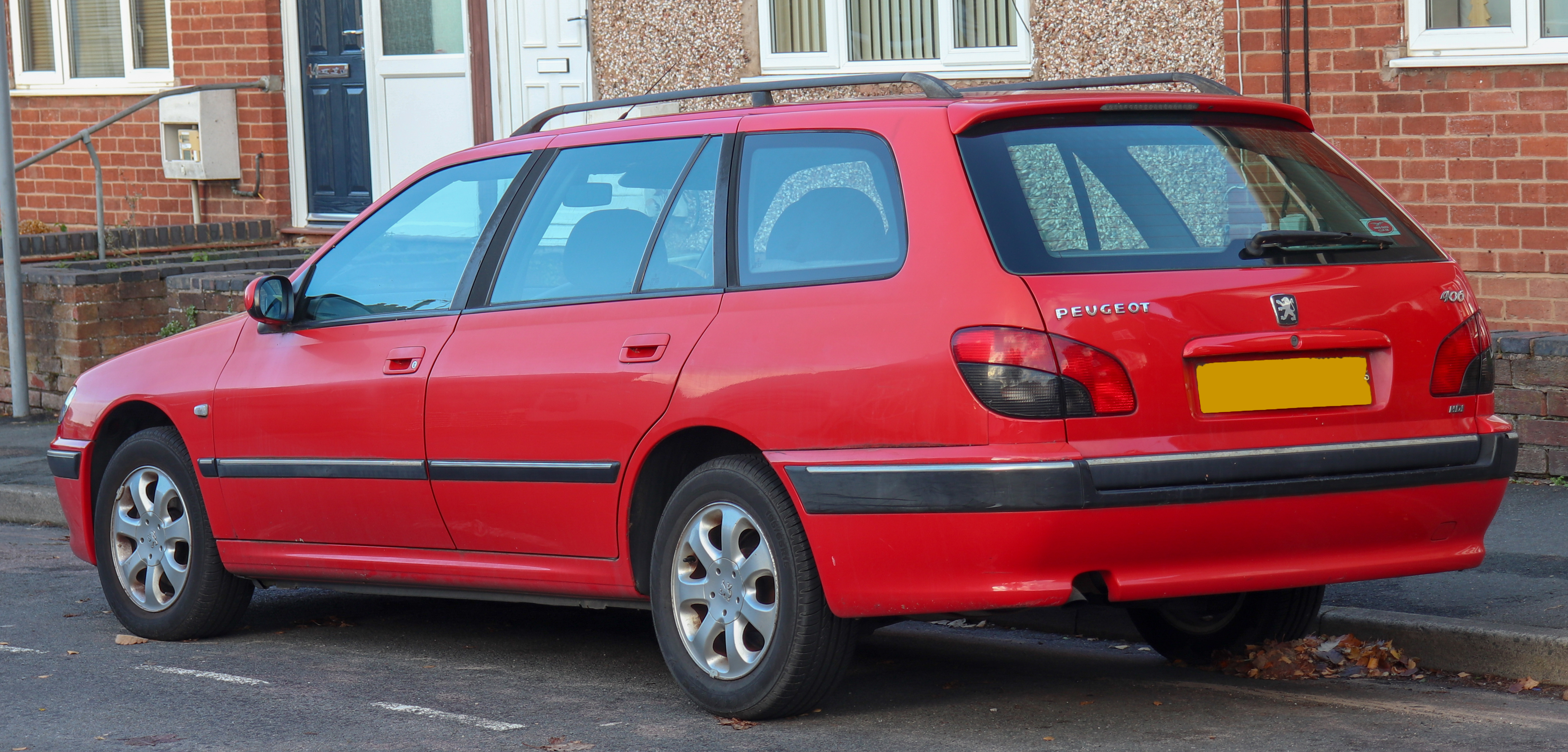 2001 Peugeot 406 Rapier HDi Estate 2.0 Rear Taken in Warwick